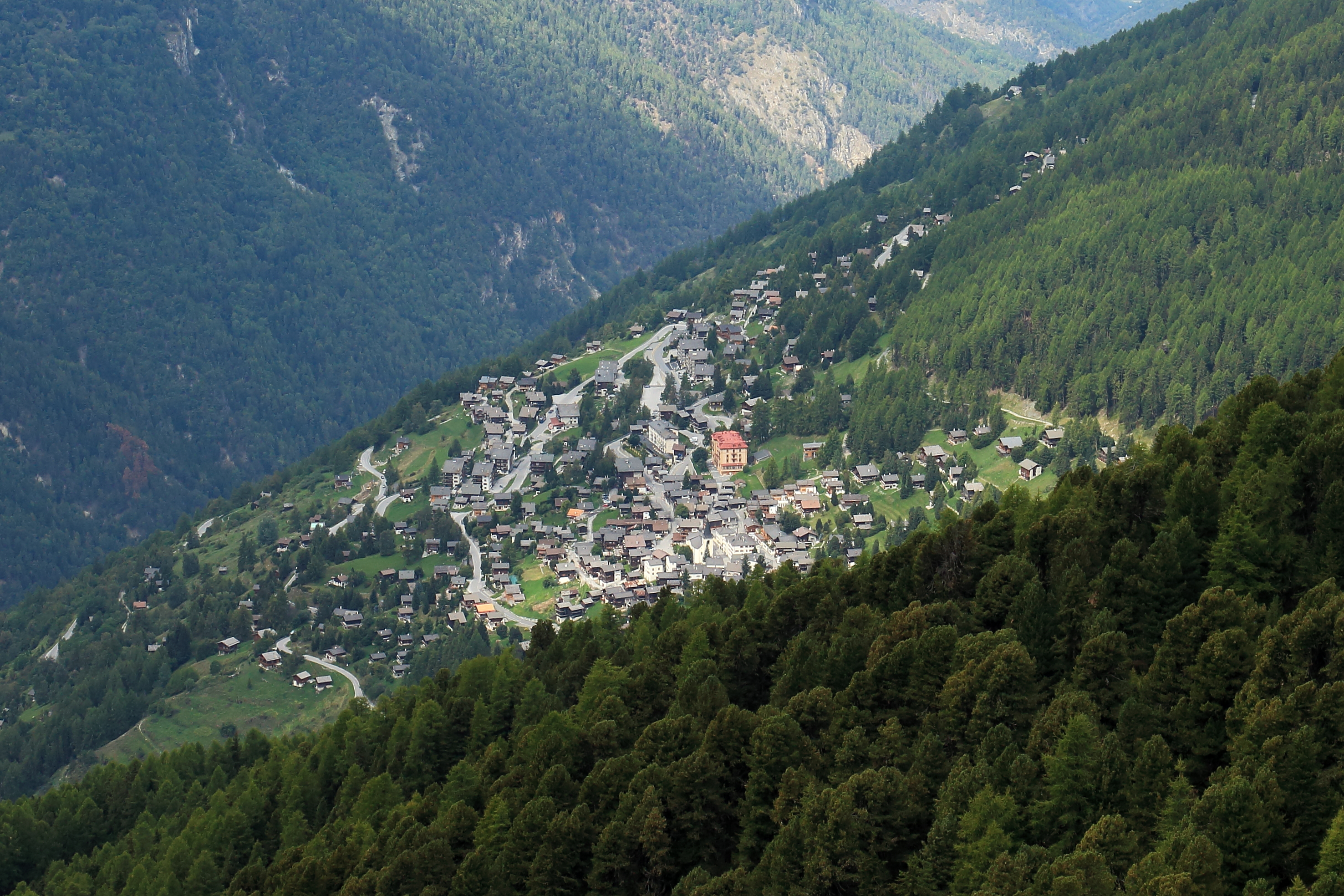 Photo Location: Hôtel Weiss Horn (2337m). View of Saint-Luc (1655m) in Val d'Anniviers.